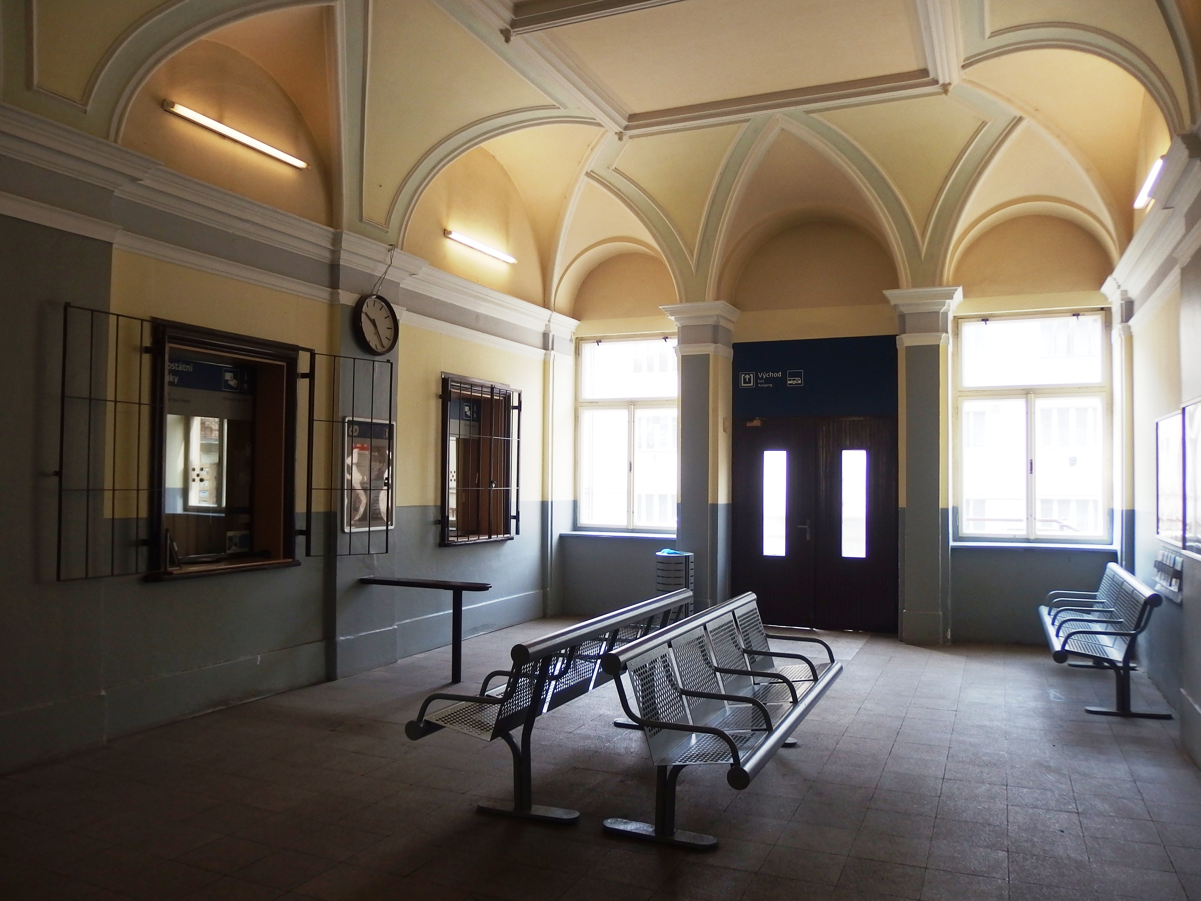 Litoměřice horní nádraží-a train station in the Czech Republic.